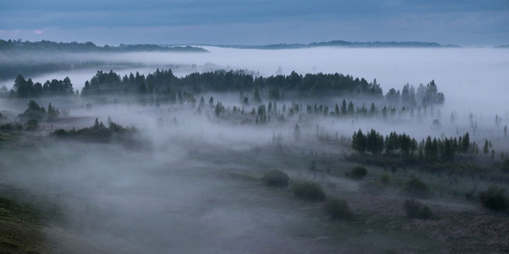 Views and landscapes Izborsk Valley. Evening mist